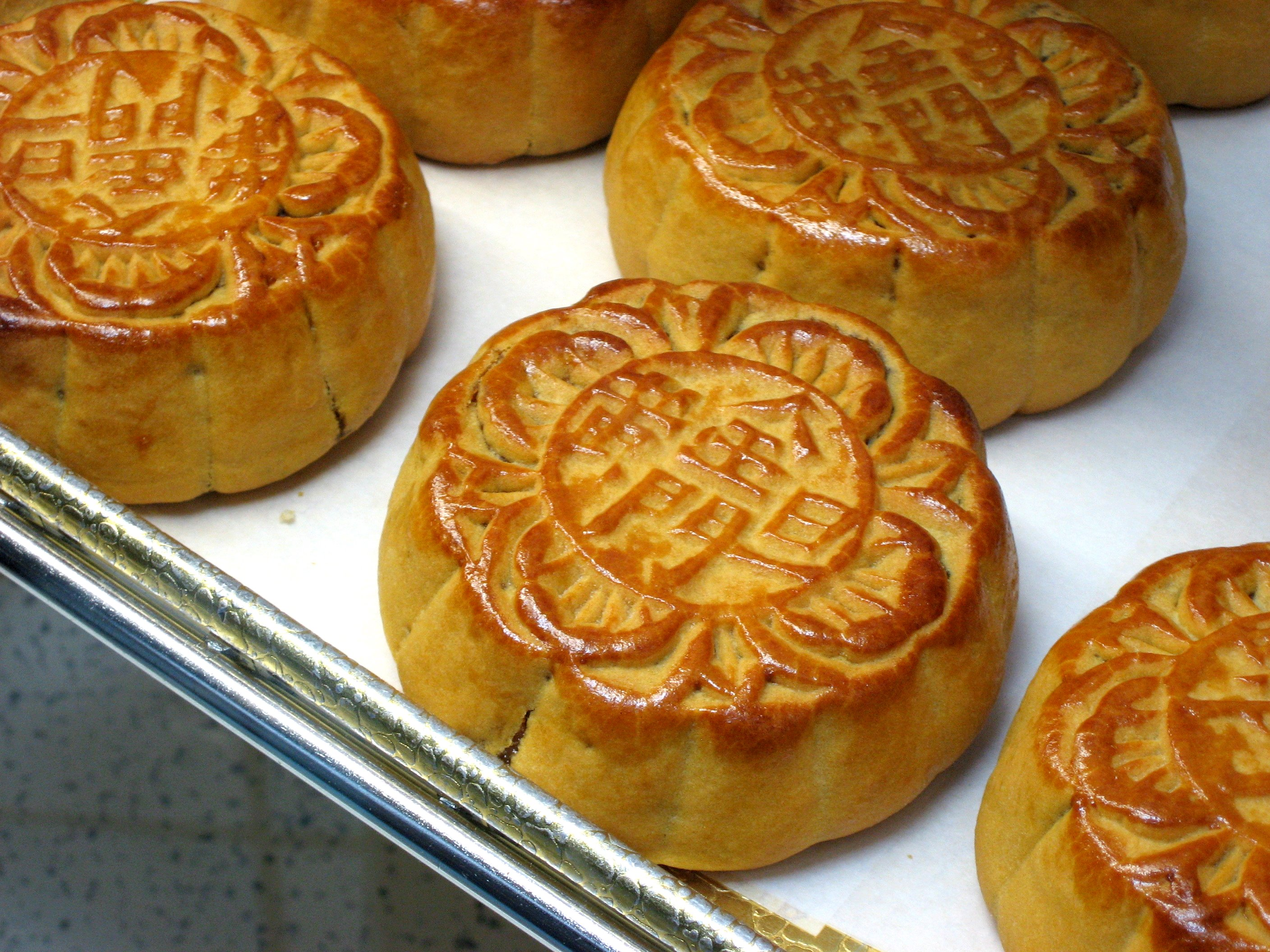 the Yummy Moon Cakes at Golden Bakery in Chinatown (San Francisco).